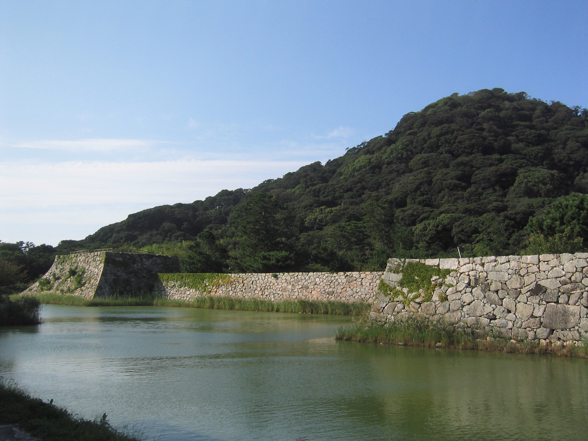 Hagi Castle's foundation of donjon. Canon IXY Digital 320